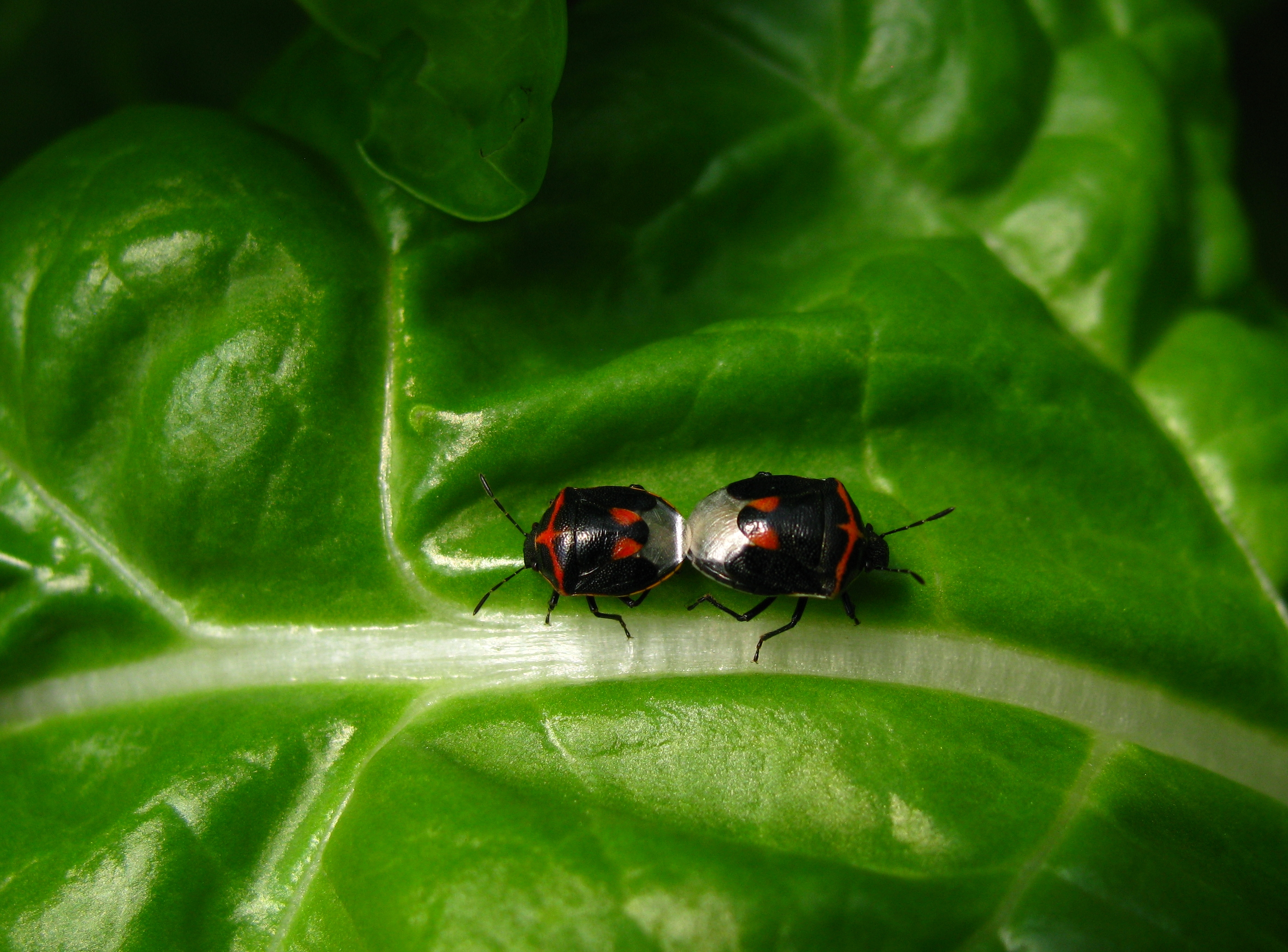 Cosmopepla lintneriana mating pair on Swiss Chard, in greenhouse in Southern British Columbia, Canada. July 2014.